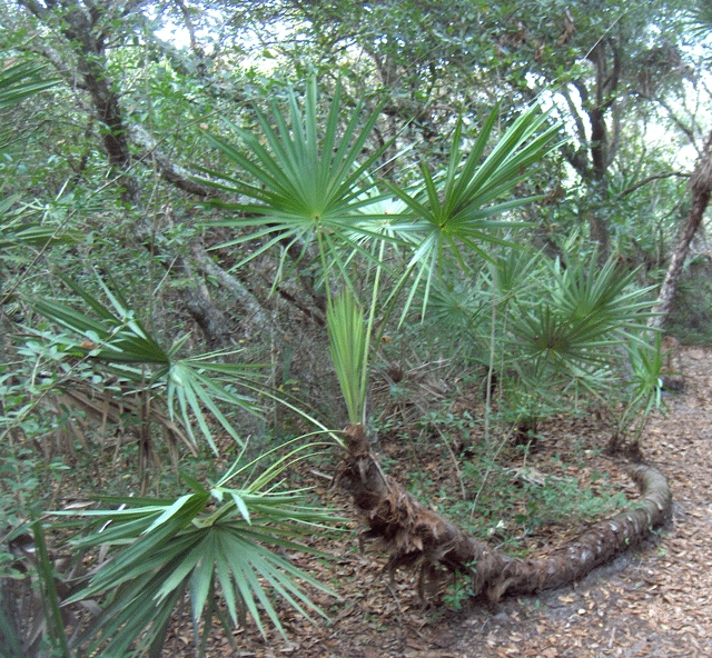 Found in Gamble Rogers State Park, Florida